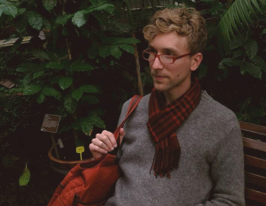 Portrait of Donald Dunbar